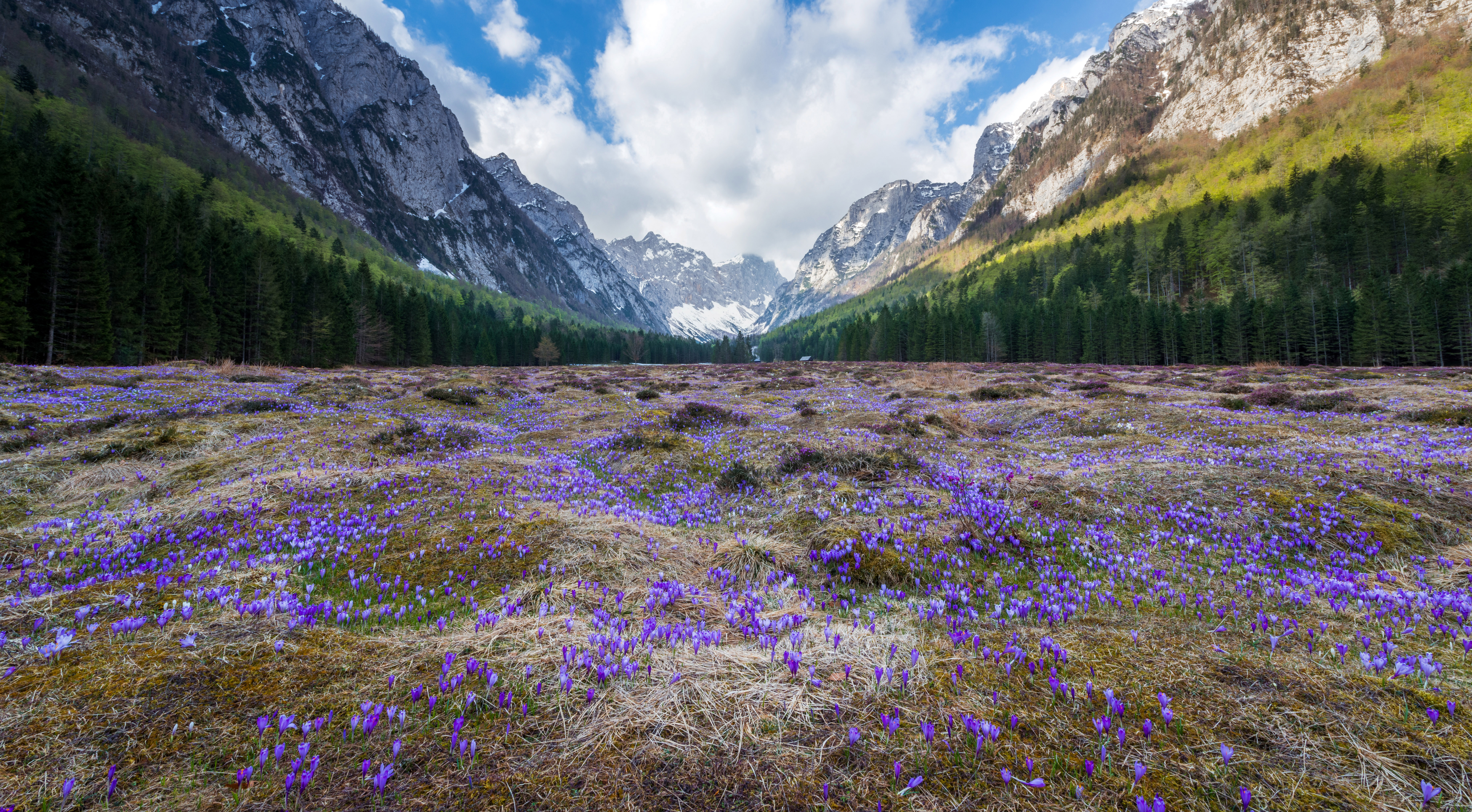 Krma valley in spring time.